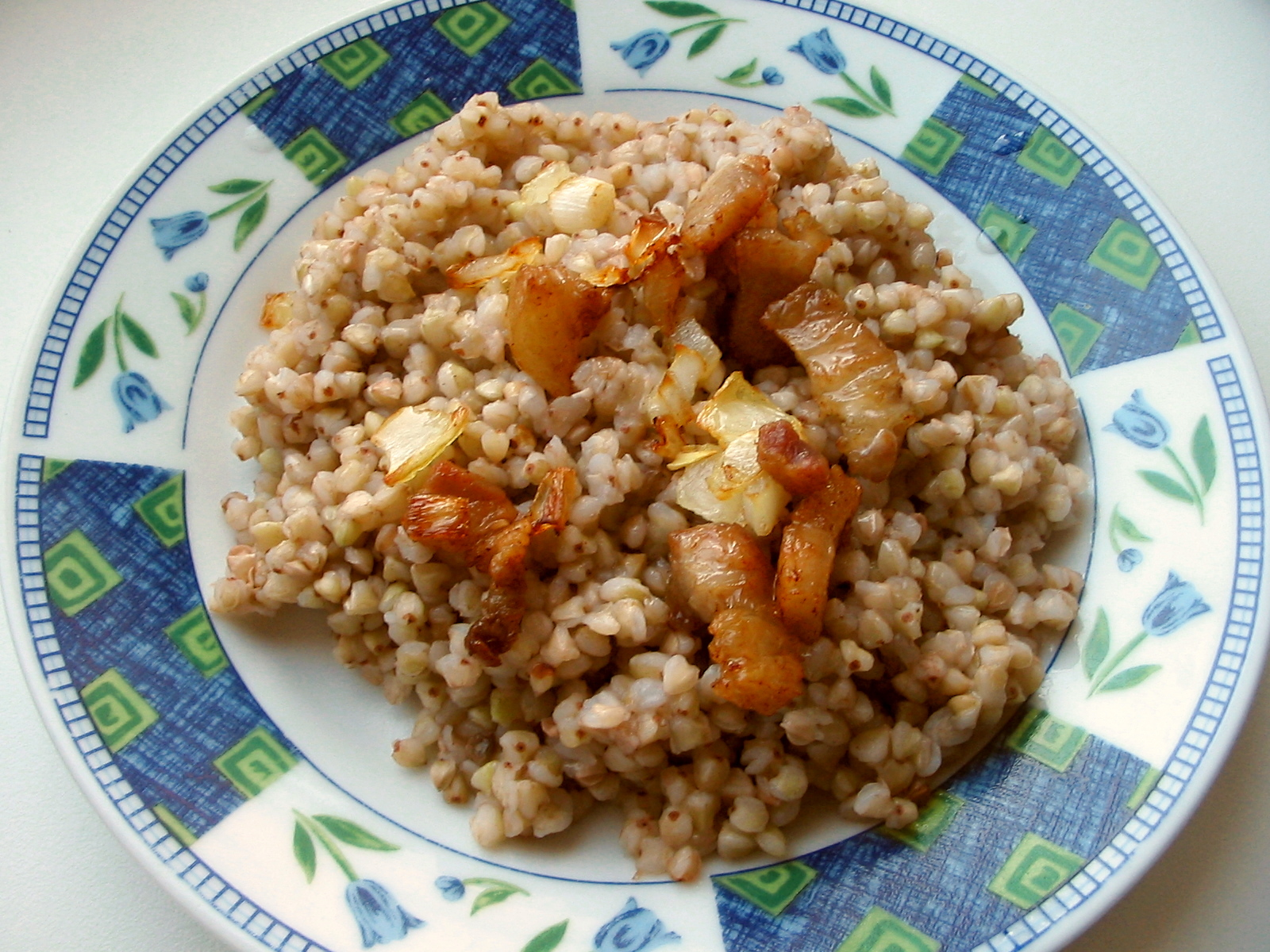 Buckwheat groats with pork rinds and fried onions